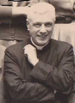 Don Raffaele Bensi, sacerdote fiorentino al tempo di La Pira e Don Milani.